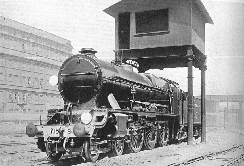 Power-operated Hoist for lifting Locomotives at Battersea Running Shed, Southern Railway The Engine is "Sir Francis Drake" of the "Lord Nelson" class. The particular shed, of the several around 'Battersea', is Stewarts Lane.